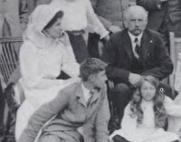 Sir George Holford and Lady Susannah Holford shortly after their marriage at a family gathering circa 1912